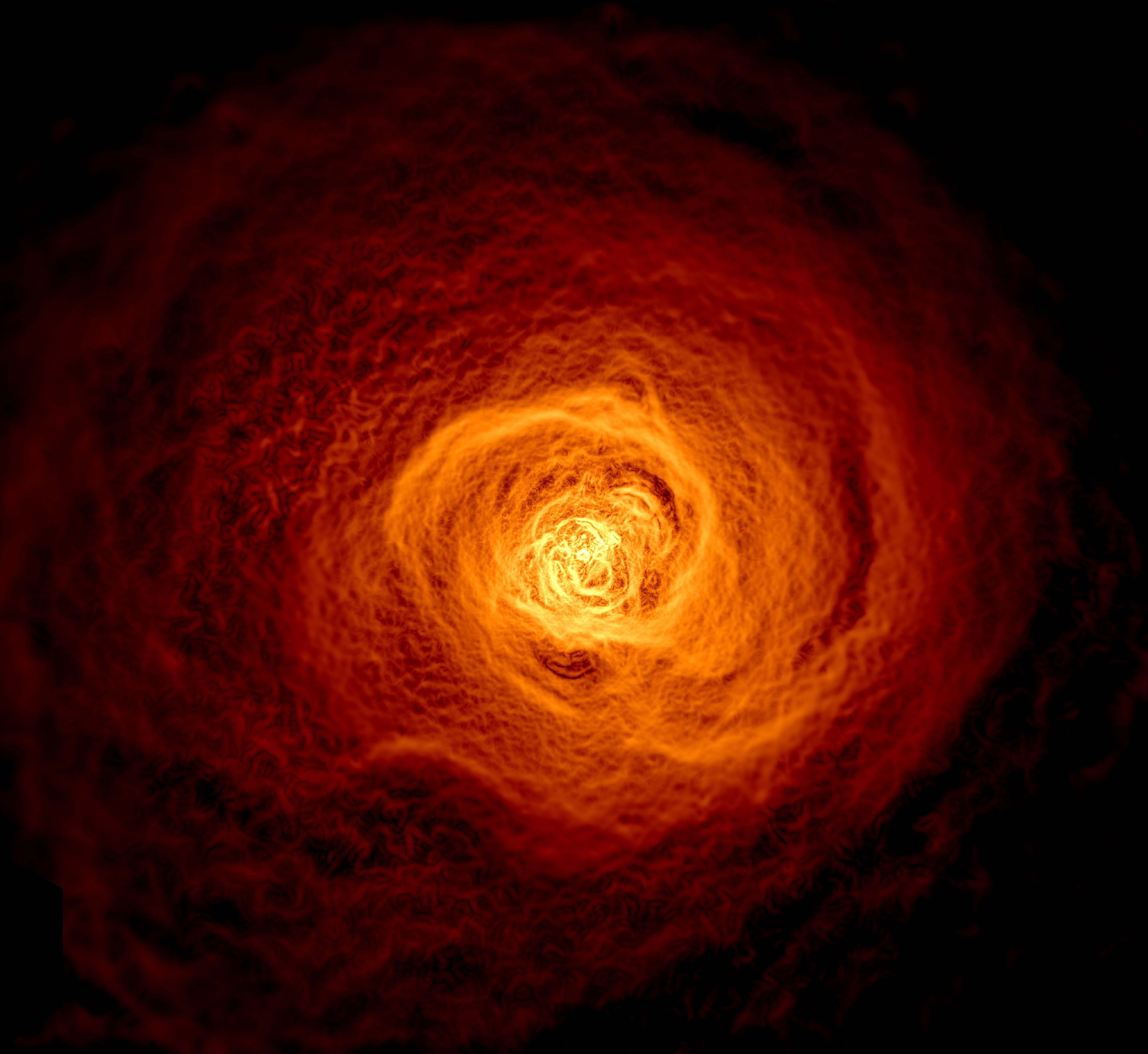 Combining data from NASA's Chandra X-ray Observatory with radio observations and computer simulations, an international team of scientists has discovered a vast wave of hot gas in the nearby Perseus galaxy cluster. Spanning some 200,000 light-years, the wave is about twice the size of our own Milky Way galaxy. The researchers say the wave formed billions of years ago, after a small galaxy cluster grazed Perseus and caused its vast supply of gas to slosh around an enormous volume of space. Galaxy clusters are the largest structures bound by gravity in the universe today. Some 11 million light-years across and located about 240 million light-years away, the Perseus galaxy cluster is named for its host constellation. Like all galaxy clusters, most of its observable matter takes the form of a pervasive gas averaging tens of millions of degrees, so hot it only glows in X-rays. Chandra observations have revealed a variety of structures in this gas, from vast bubbles blown by the supermassive black hole in the cluster's central galaxy, NGC 1275, to an enigmatic concave feature known as the "bay." These waves are giant versions of Kelvin-Helmholtz waves, which show up wherever there's a velocity difference across the interface of two fluids, such as wind blowing over water. They can be found in the ocean, in cloud formations on Earth and other planets, in plasma near Earth, and even on the Sun.